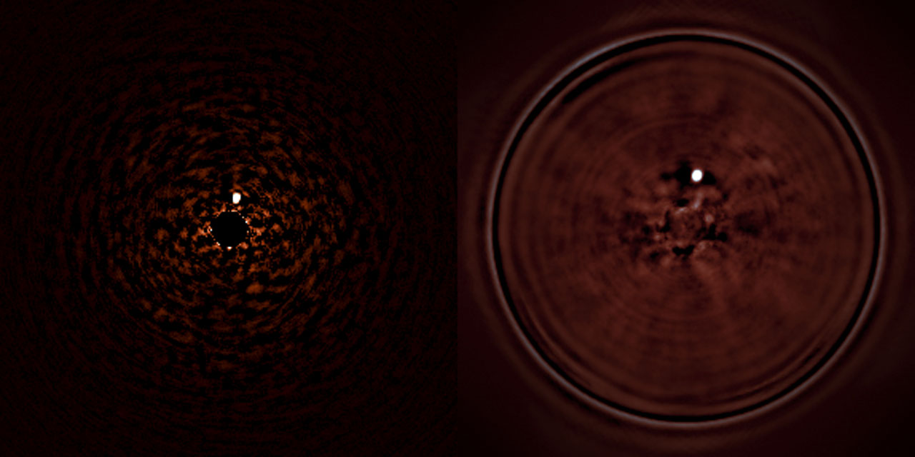 The star HR 7581 (Iota Sgr) was observed in SPHERE survey mode (parallel observation in the near infrared with the dual imaging camera [left] and the integral field spectrograph [right]). A very low mass star, more than 4000 times fainter that its parent star, was discovered orbiting Iota Sgr at a tiny separation of 0.24". This is a vital demonstration of the power of SPHERE to image faint objects very close to bright ones. The bright star itself has been suppressed almost completely by SPHERE, to allow the faint companion to appear as a clear bright spot to the upper right of the centre. This shows the great potential for SPHERE to detect exoplanets.